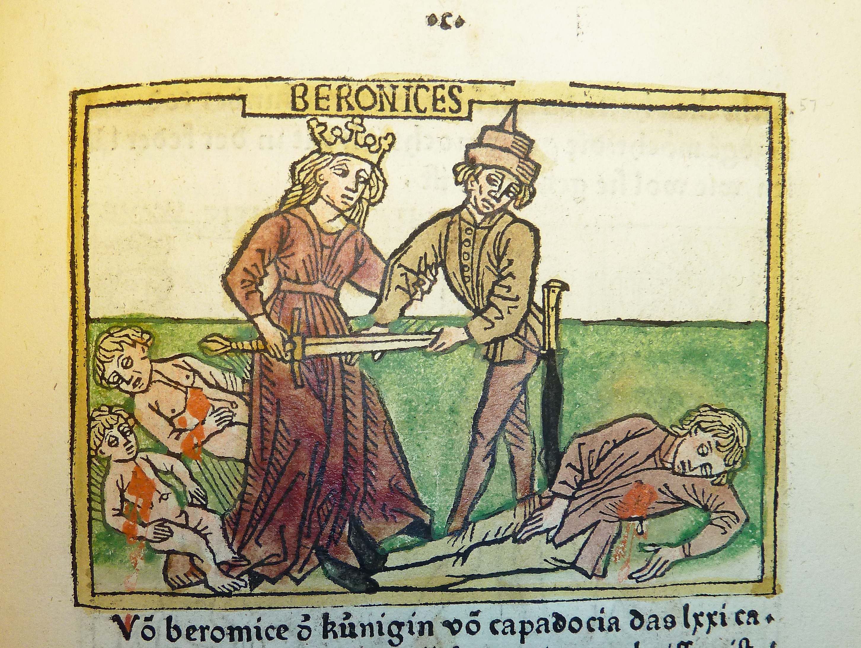 Woodcut illustration (leaf [l]10r, f. c) of Berenice (or Laodice) of Cappadocia, wife of Ariarathes VI, hand-colored in red, green, yellow and black, from an incunable German translation by Heinrich Steinhöwel of Giovanni Boccaccio's De mulieribus claris, printed by Johannes Zainer at Ulm ca. 1474 (cf. ISTC ib00720000). One of 76 woodcut illustrations (1 on leaf [e]8v dated 1473), each 80 x 110 mm., depicting scenes from the life of the women chronicled (for a full list of subjects, cf. W.L. Schreiber, Handbuch der Holz- und Metallschnitte des XV. Jahrhunderts (Nendeln: Kraus Reprints, 1969), no. 3506). "Pour la première moitie le nom se trouve inscrit à côte de la tête de chaque femme, pour le reste il es ajouté entre les deux réglettes. Il n'y en a que trois, qui n'ont qu'un seul trait carré."--Schreiber. Established form: Zainer, Johannes, ‡d d. 1541?. Penn Libraries call number: Inc B-720 All images from this book Penn Libraries catalog record